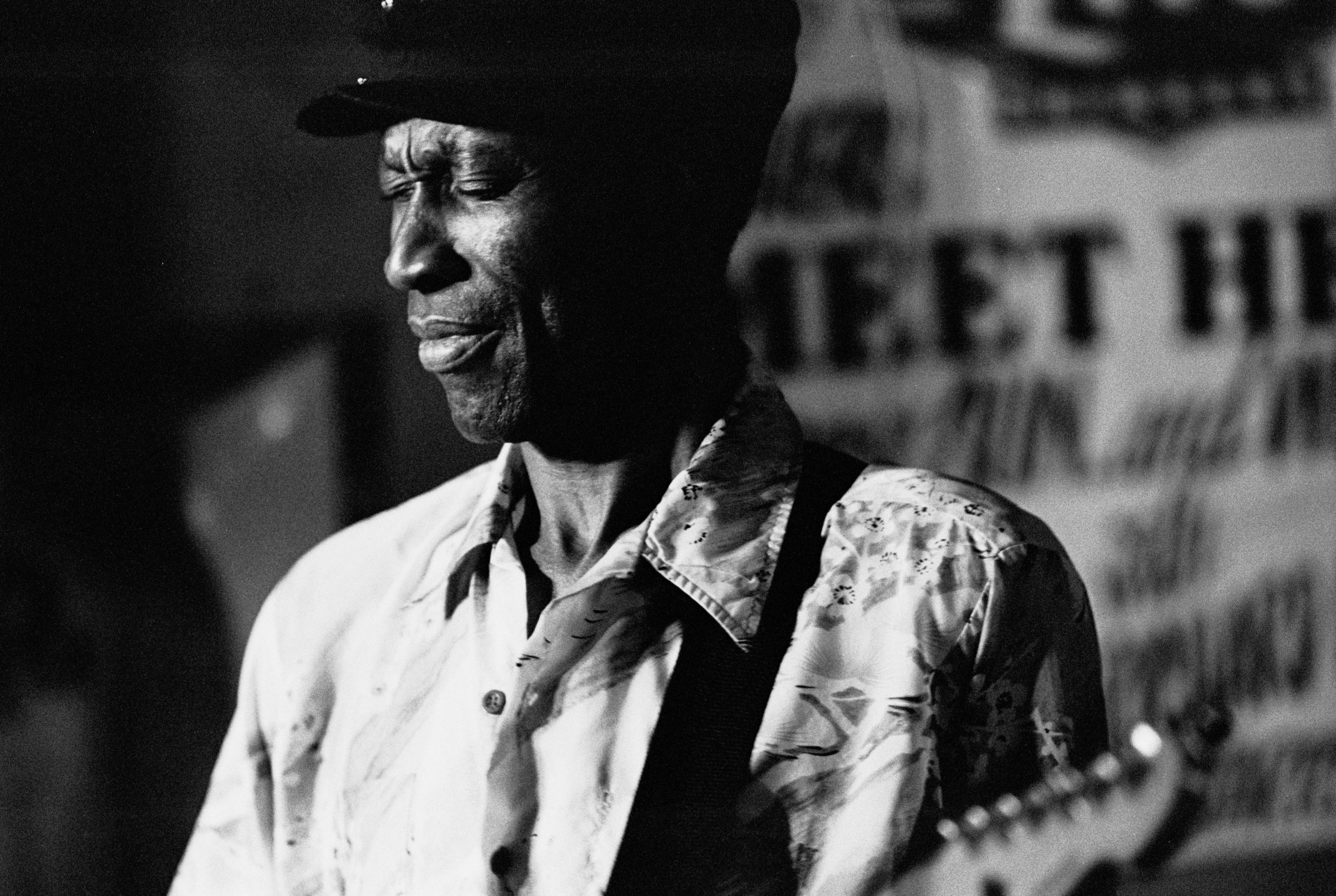 Bluesman U.P. Wilson performing at the Hi Hat Lounge in Fort Worth, Texas, April, 1993.